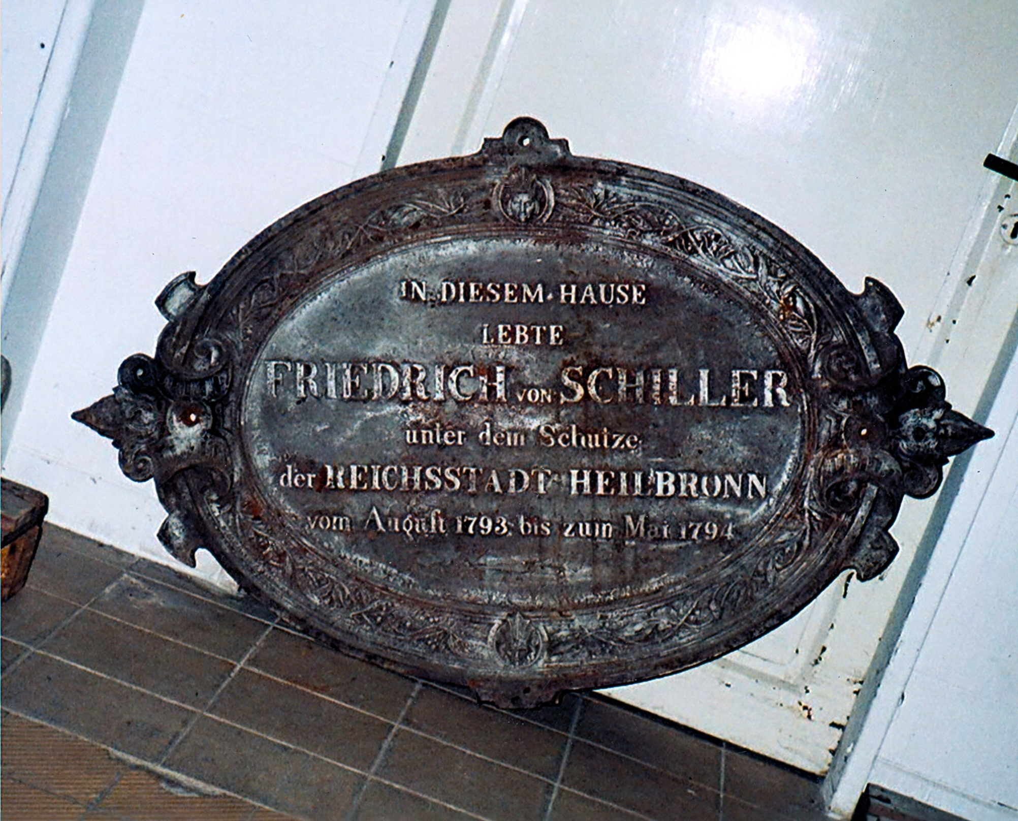 t